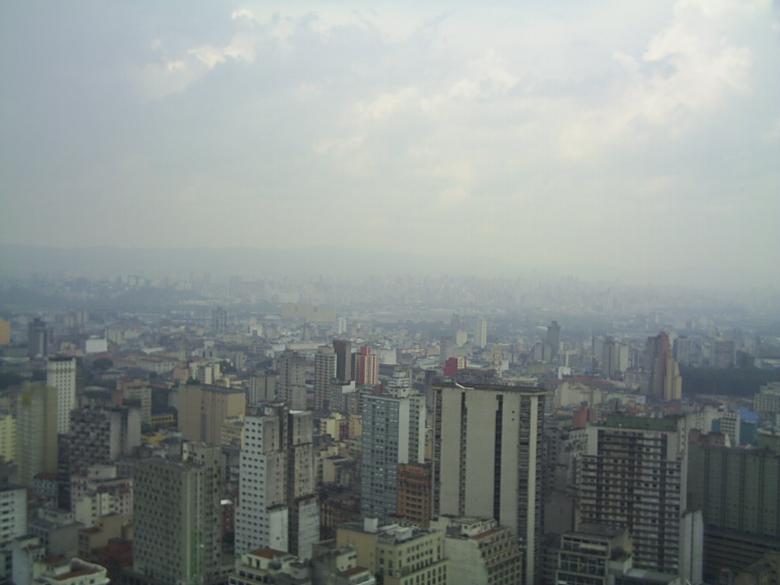 Bom Retiro and the north zone on the horizon, both viewed the building Italy.